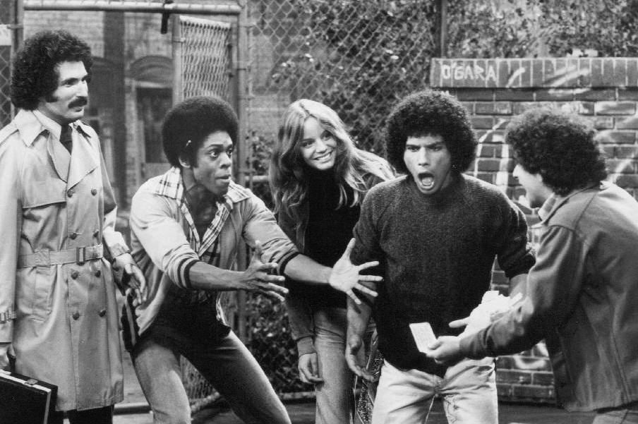 Publicity photo from the television program Wlecome Back, Kotter. From left: Gabe Kaplan, Lawrence Hilton-Jacobs, Wendy Rastatter, Robert Hegyes, and Ron Palillo. The Sweathogs are celebrating a winning New York State lottery ticket while Mr. Kotter looks on.